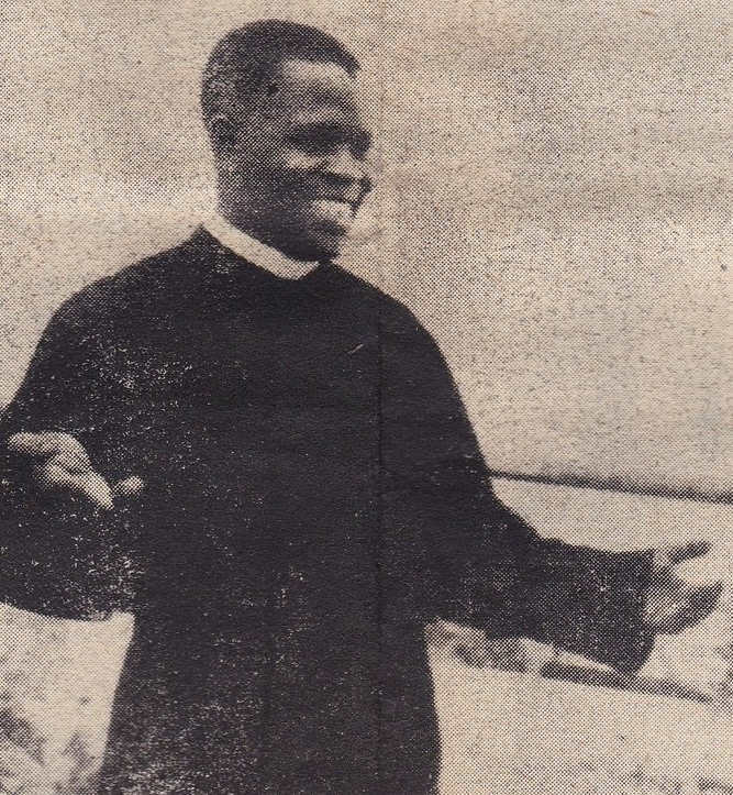 Abbé Fulbert Youlou in 1958